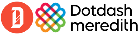 Logo of internet company, Dotdash.